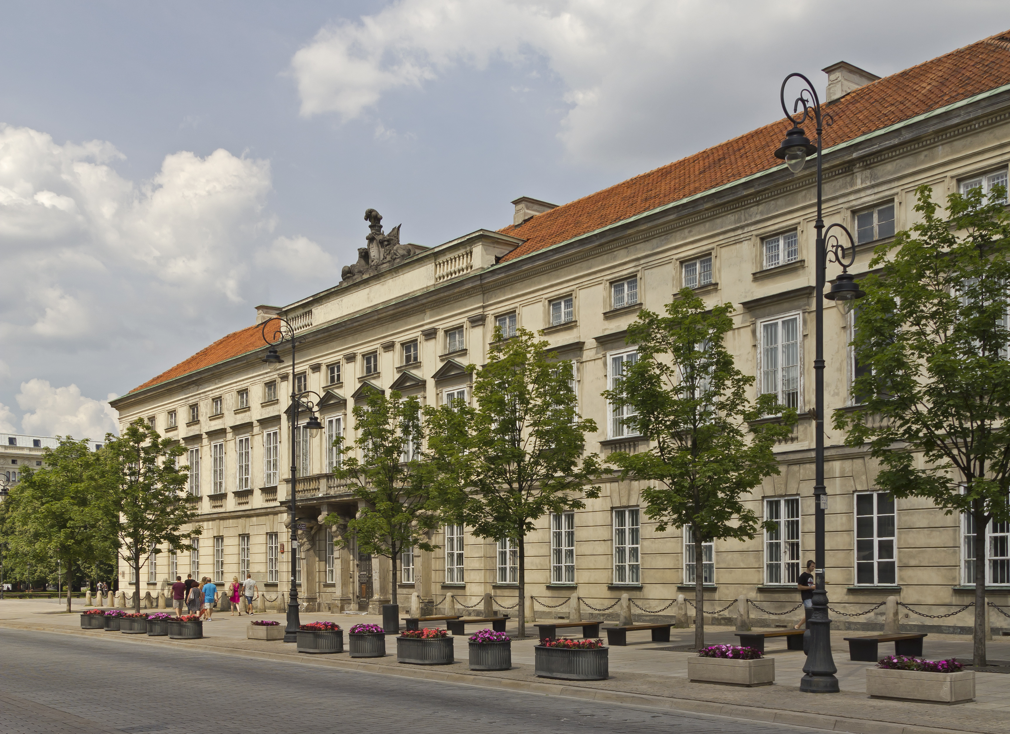 Tyszkiewicz Palace in Warsaw (Poland)